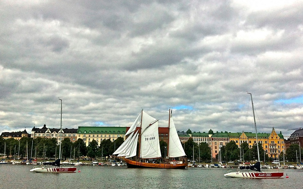 Merisatama (Sea Harbor) in Helsinki